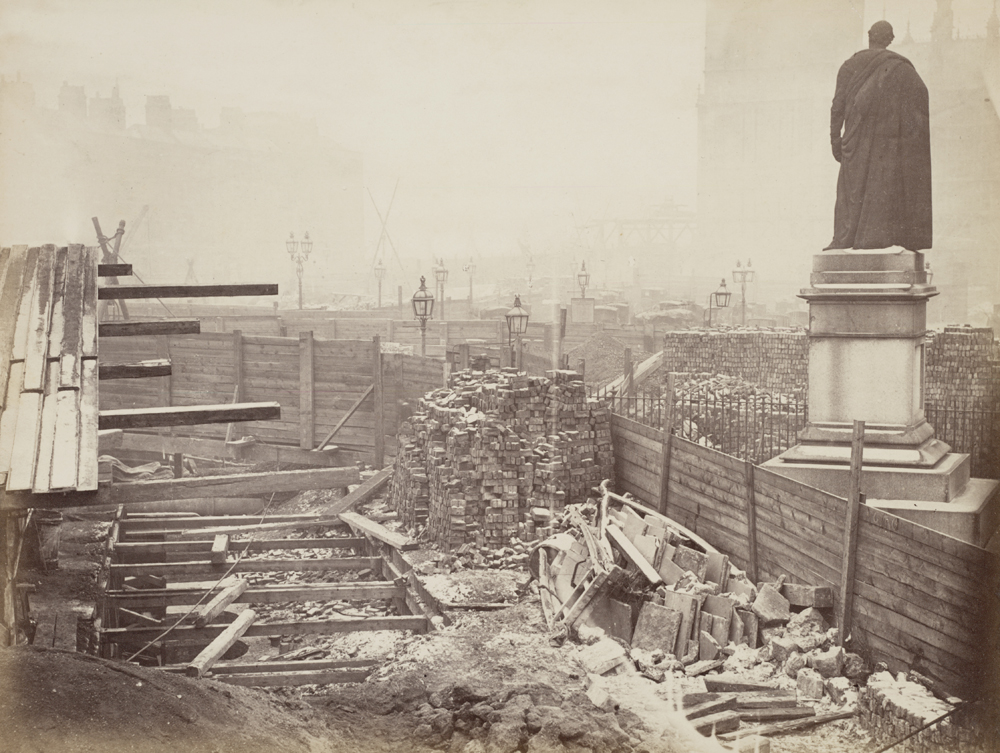 Construction of the Metropolitan District Railway circa 1866. View of Parliament Square towards Houses of Parliament with George Canning's memorial.